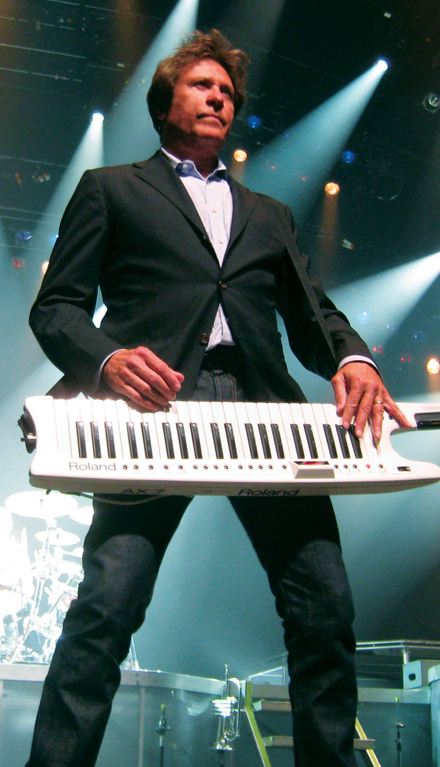 Robert Lamm performing live